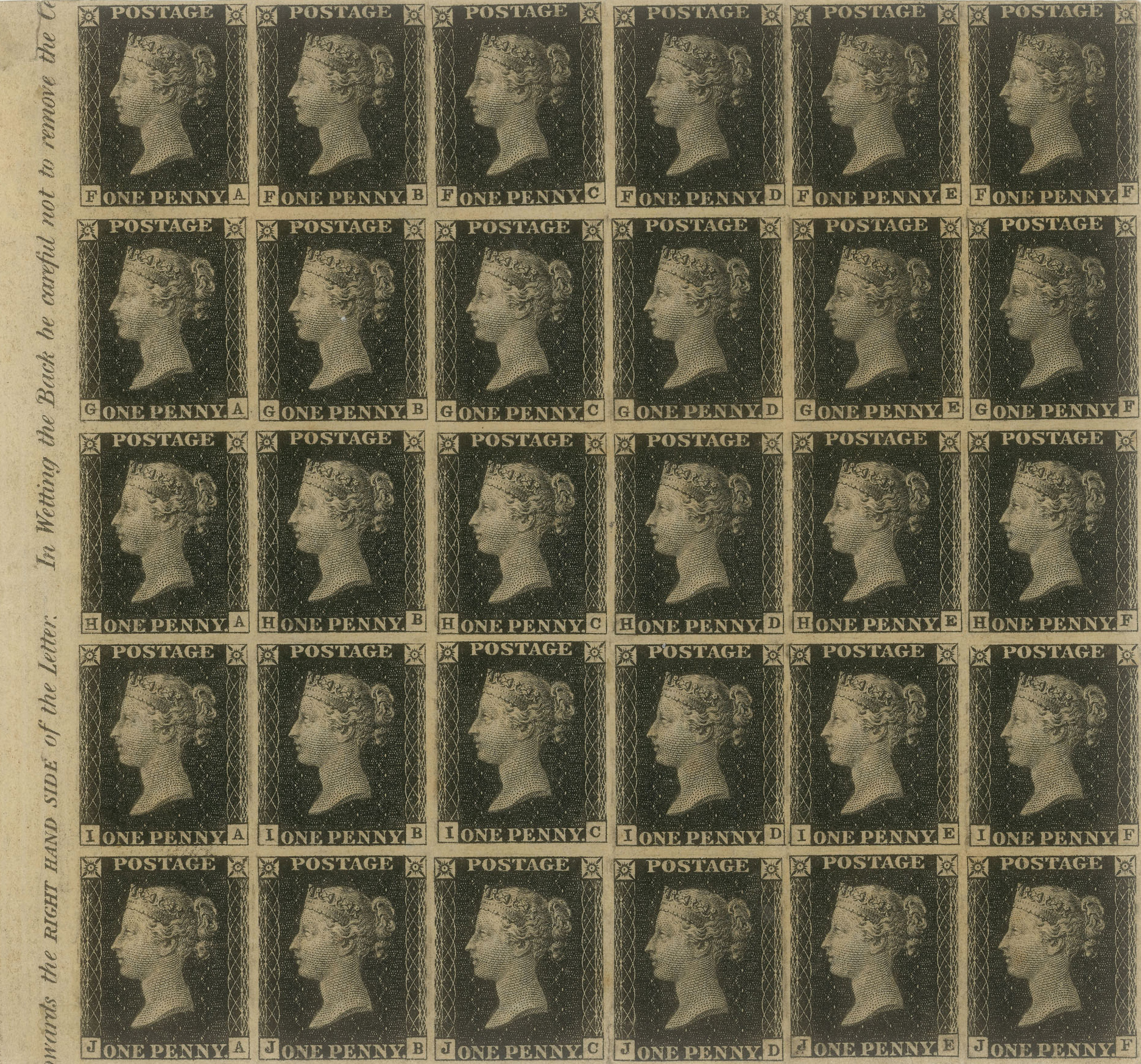 Mint block of thirty Penny Black stamps from the Phillips Collection, Volume III: 1d black plate 11; Postal Museum, London.